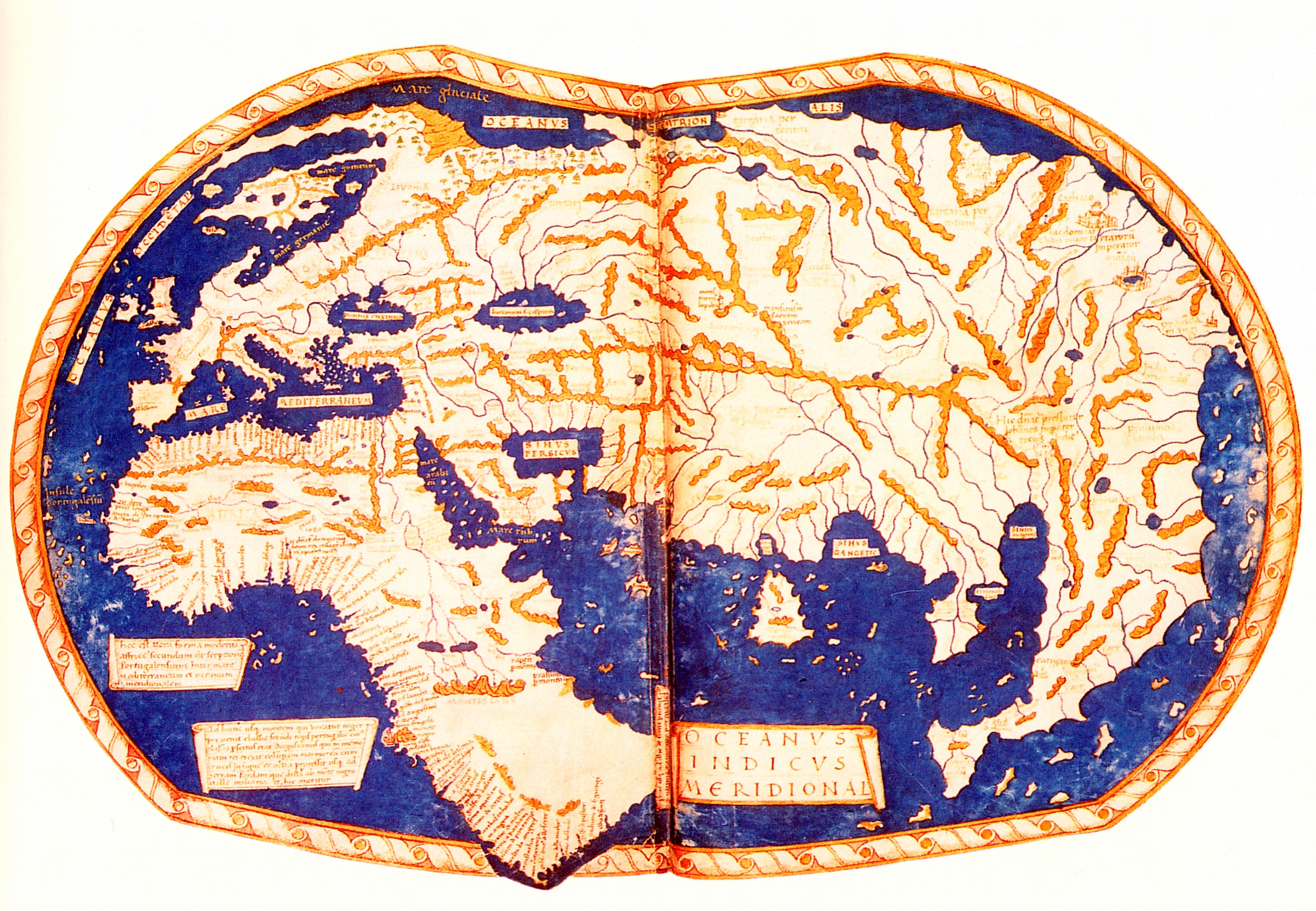 The world map of "Henricus Martellus Germanus" (Heinrich Hammer the German), Florence 1490-92. The first map with the Dragon Tail. It is a mixture of Ptolemy, recent Portuguese discoveries and unknown sources. Displays the Cape of Good Hope, rounded by Bartolomeo Dias in 1488.